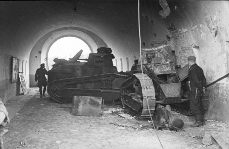 Polish FT-17 tanks used to block successfully the northern gate to Brest Fortress, against German Guderian's forces